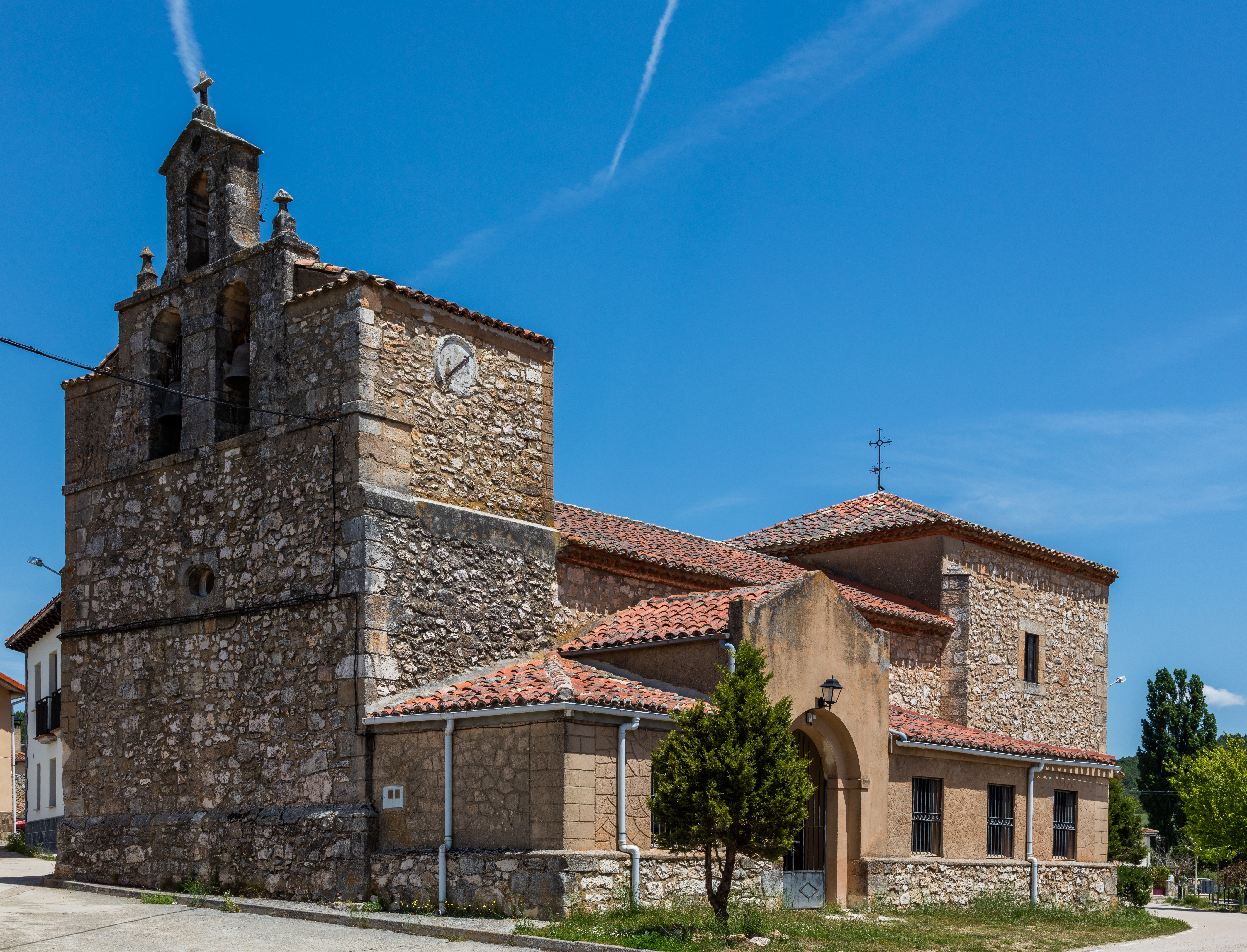 Church of St Peter, Muñecas, Soria, Spain